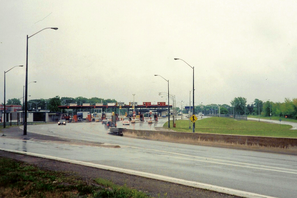 The customs plaza at the eastern end of Highway 405 on the Ontario side of the Niagara River. Colour modification and crop of original image by Floydian